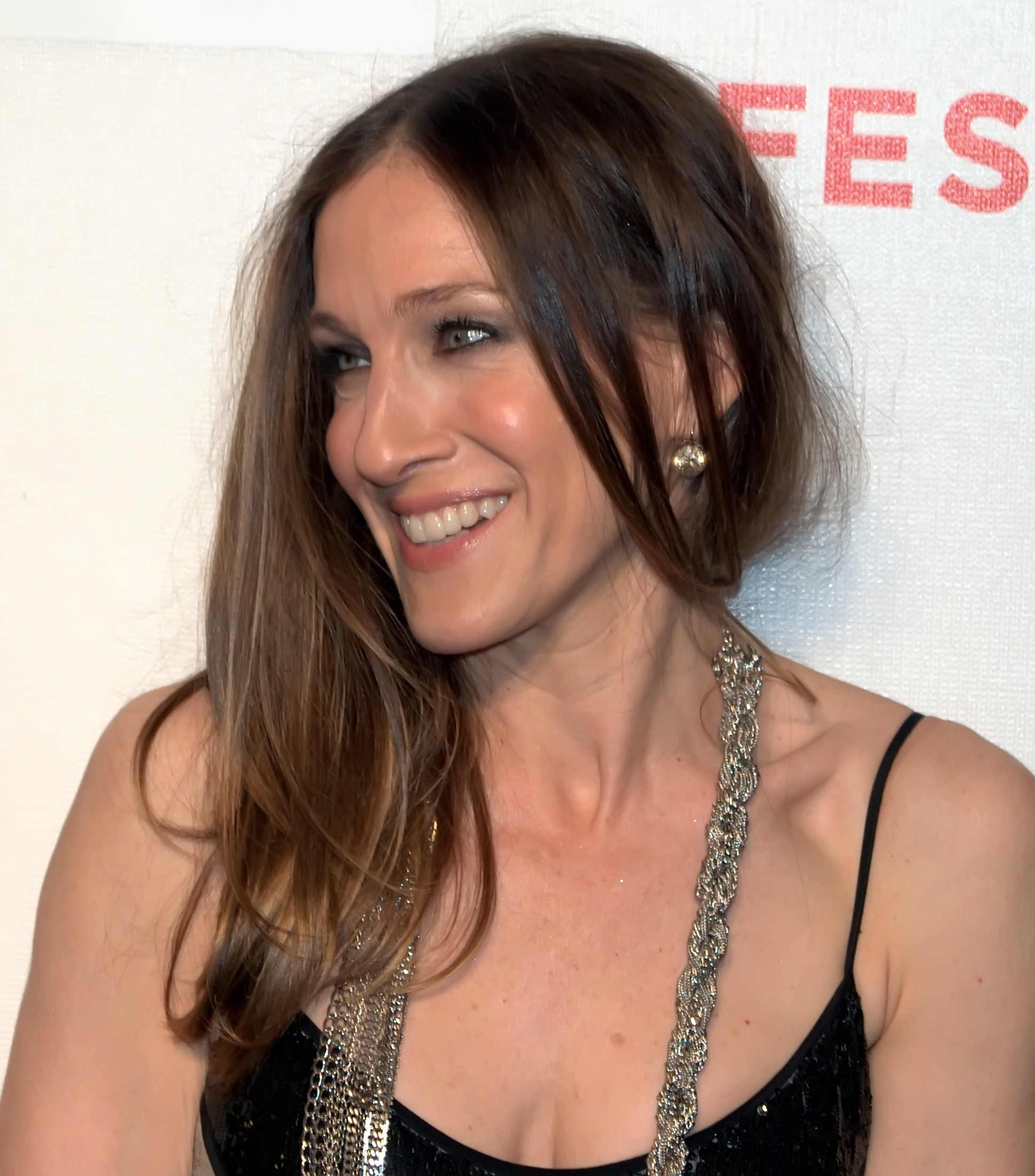 Sarah Jessica Parker at the 2009 Tribeca Film Festival for the premiere of Wonderful World. Photographer's blog post about these photos.